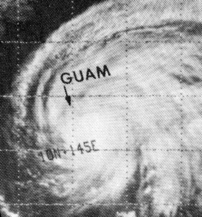 This weather satellite image of Typhoon Pamela was taken on May 20, 1976